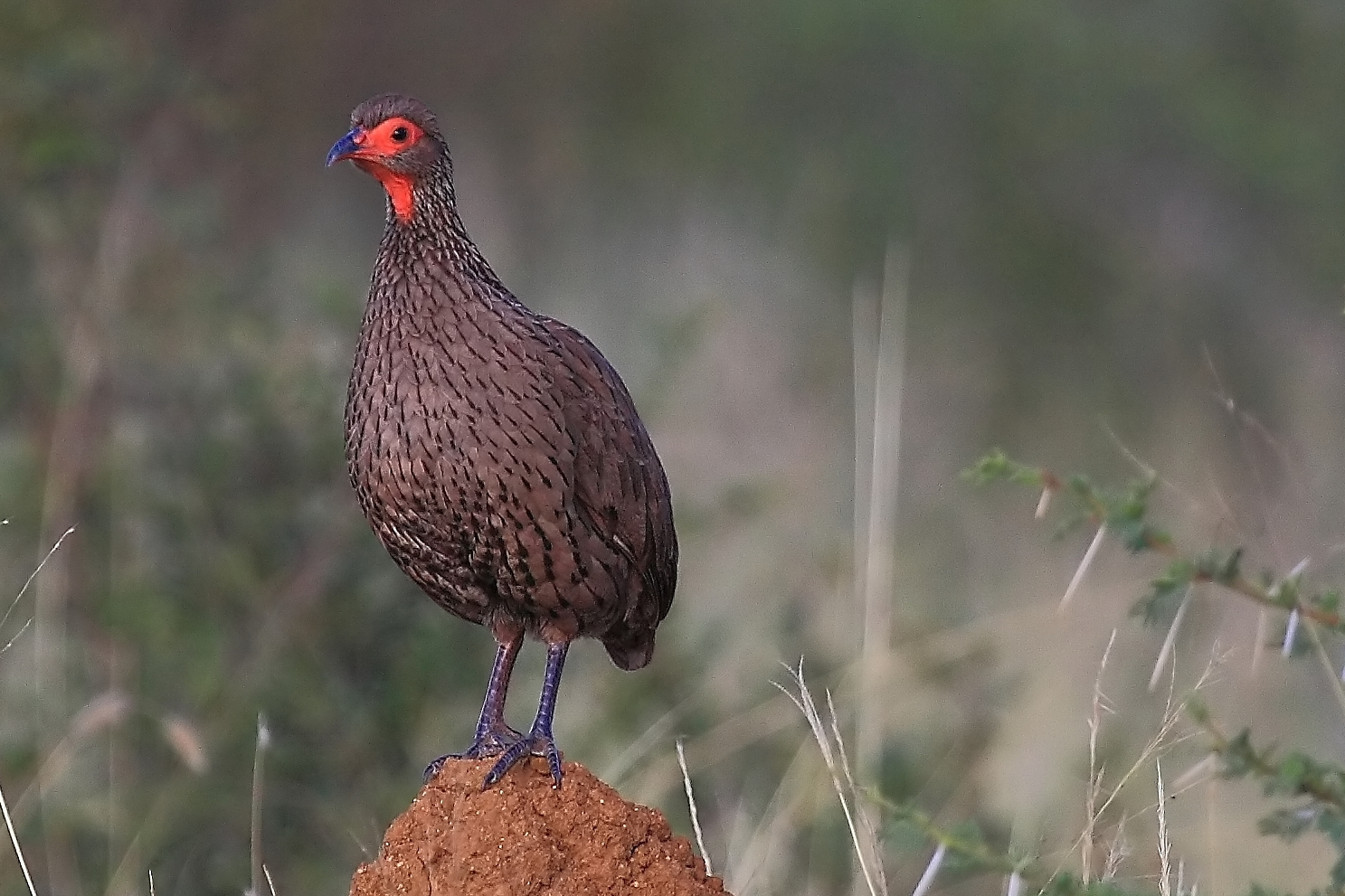 Swainson's Spurfowl Pternistis swainsonii in Madikwe Game Reserve, South Africa